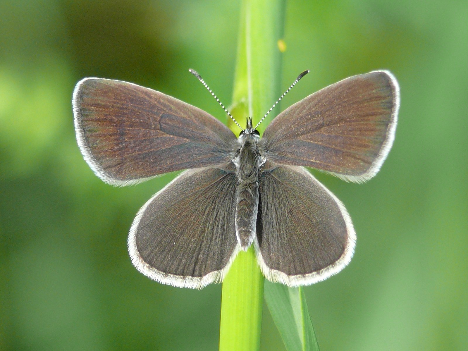 Small Blue, Munich, Riemer Park